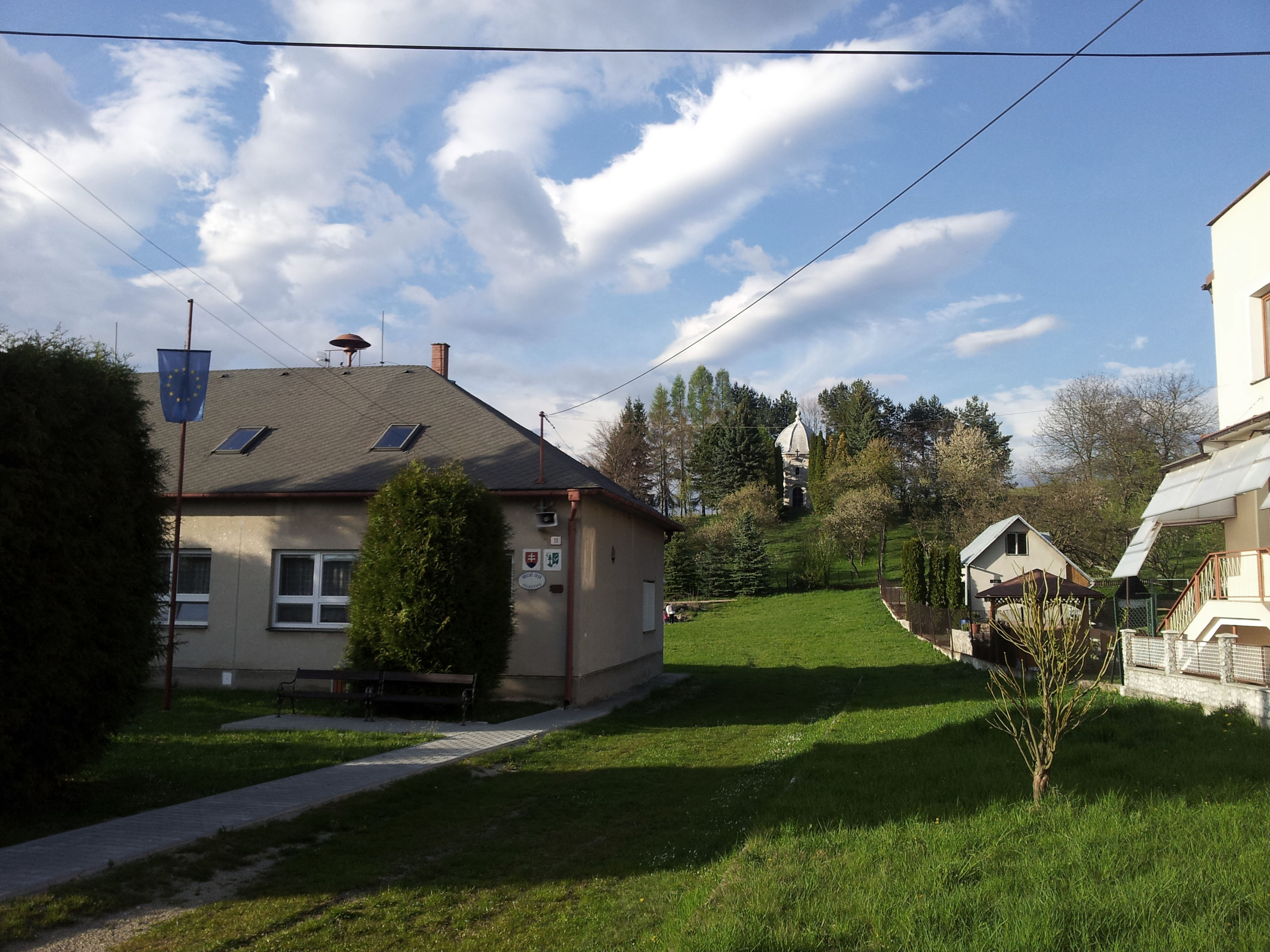 Municipal office in Folkušová, Slovakia. In the background is the Mausoleum of Tomka family.